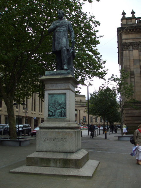 Doctor Samuel Taylor Chadwick Statue, Bolton This statue is erected in Victoria Square